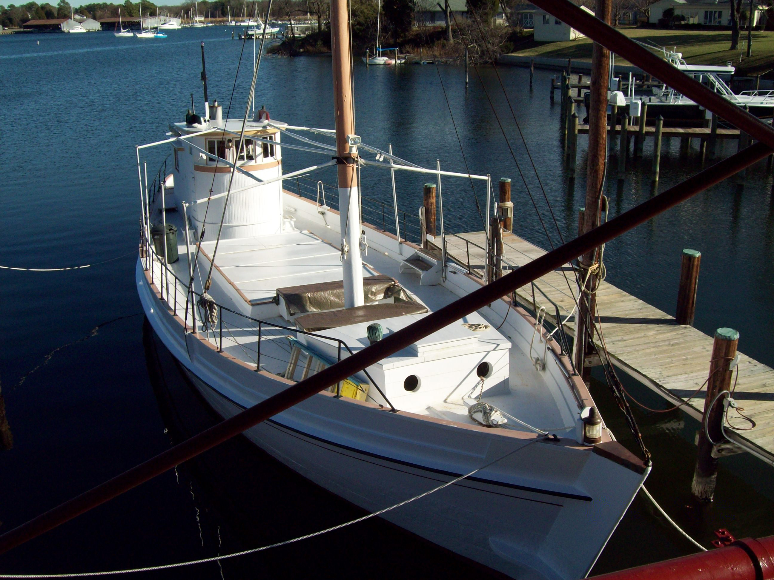 William B. Tennison - View from Above, Solomons, Md.